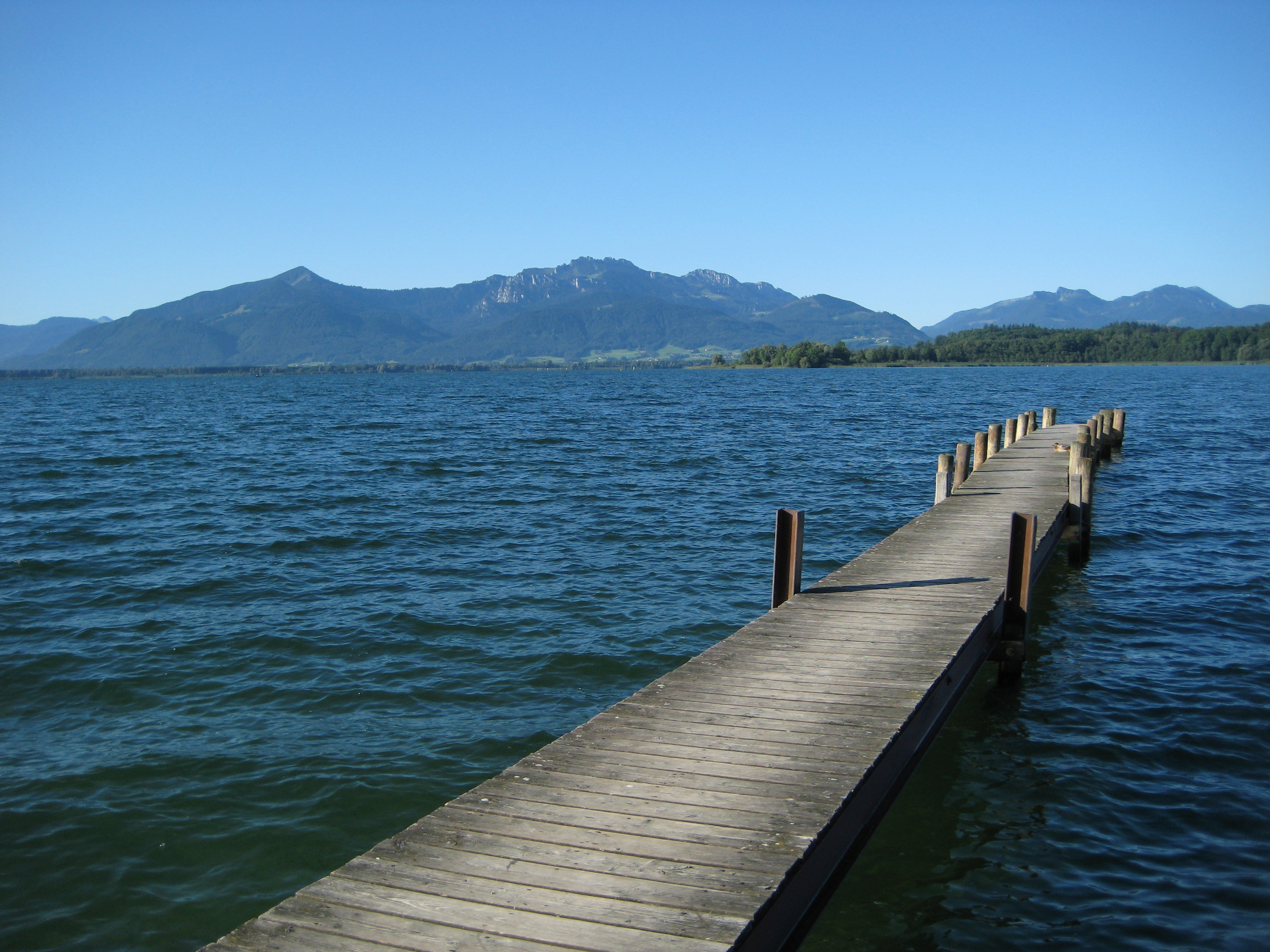 Chiemsee, pier at the southern tip of the Fraueninsel